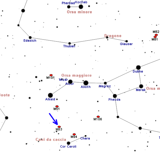 Map of M63